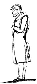 Portrait of Pyotr Vyazemsky by Aleksander Pushkin